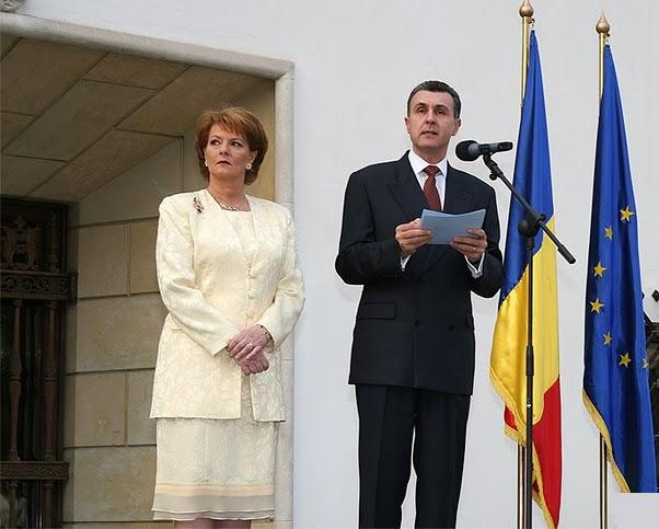 Principele Radu si Principesa Margareta la lansarea candidaturii principelui la presedintie la Palatul Elisabeta din Bucuresti din 10 aprilie 2009.